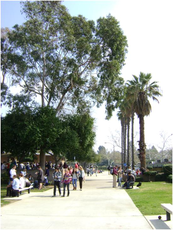 A shot of the central quad at lunch time.